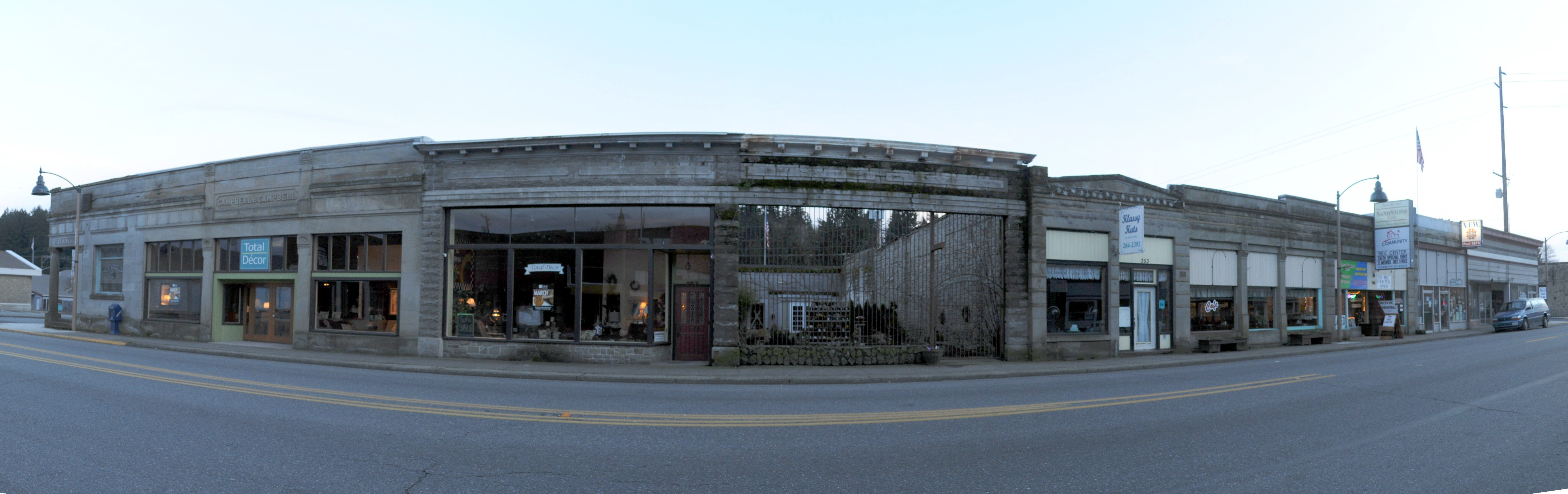 Panoramic view of buildings in the historic center of Tenino, Washington. Left to right (using historical names of the buildings), The State Bank of Tenino on the corner is actually nestled into the L-shaped Campbell & Campbell Building; except for its façade the Mentzner & Coping Block was gutted by fire in 1983; only one of the two storefronts has been rebuilt. The Miller Block (three storefronts, one with a distinct capital). The VFW Hall/Liberty Theater. Unidentified building on corner. This image was created with Hugin